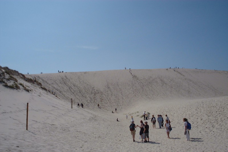 Poland, movable dune in Slowinski National Park.